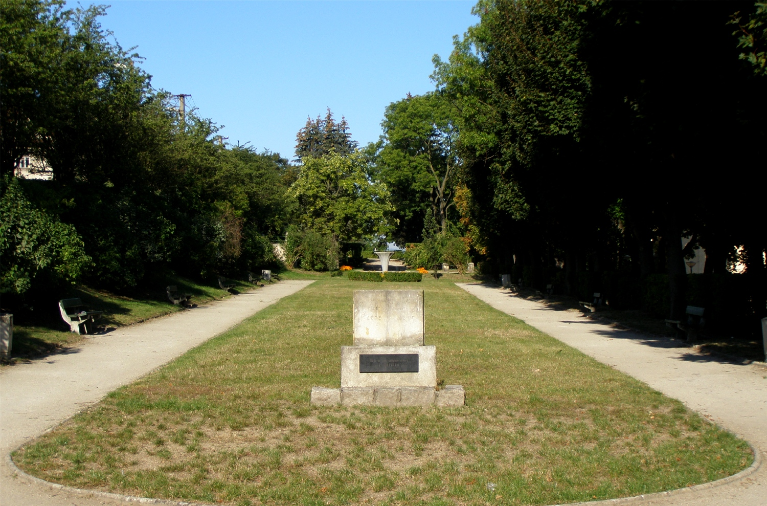 Třebíč-Horka. Tyrš' gardens - East part